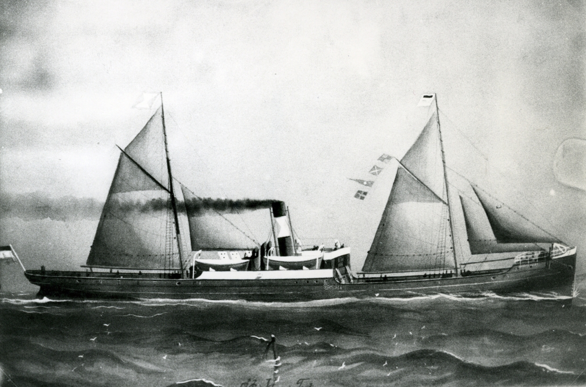 Streamship HANS JOST (ID 5603155) built at Flensburger Schiffsbau-Gesellschaft, Flensburg (yard № 100, launched: 08-06-1889, delivered: 06-1889), British prize at Grangemouth 08-1914, mined northsea 55.43N, 00.33W 30-05-1919